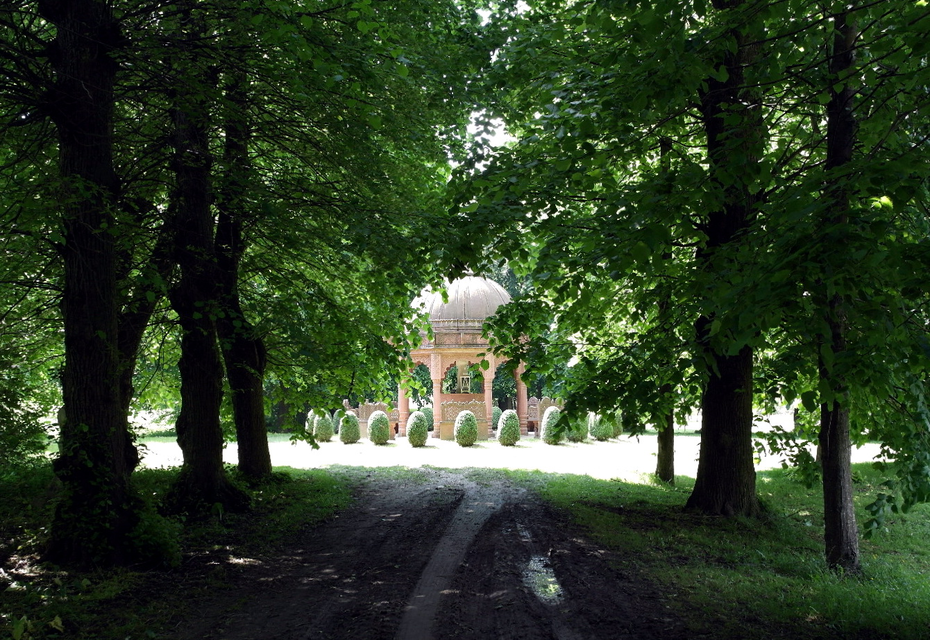 Maastricht, the Netherlands. View of an oriental garden pavilion at the end of a forest lane in Meerssenhoven Castle Park, an 18th-century country estate in the northern outskirts of the city.